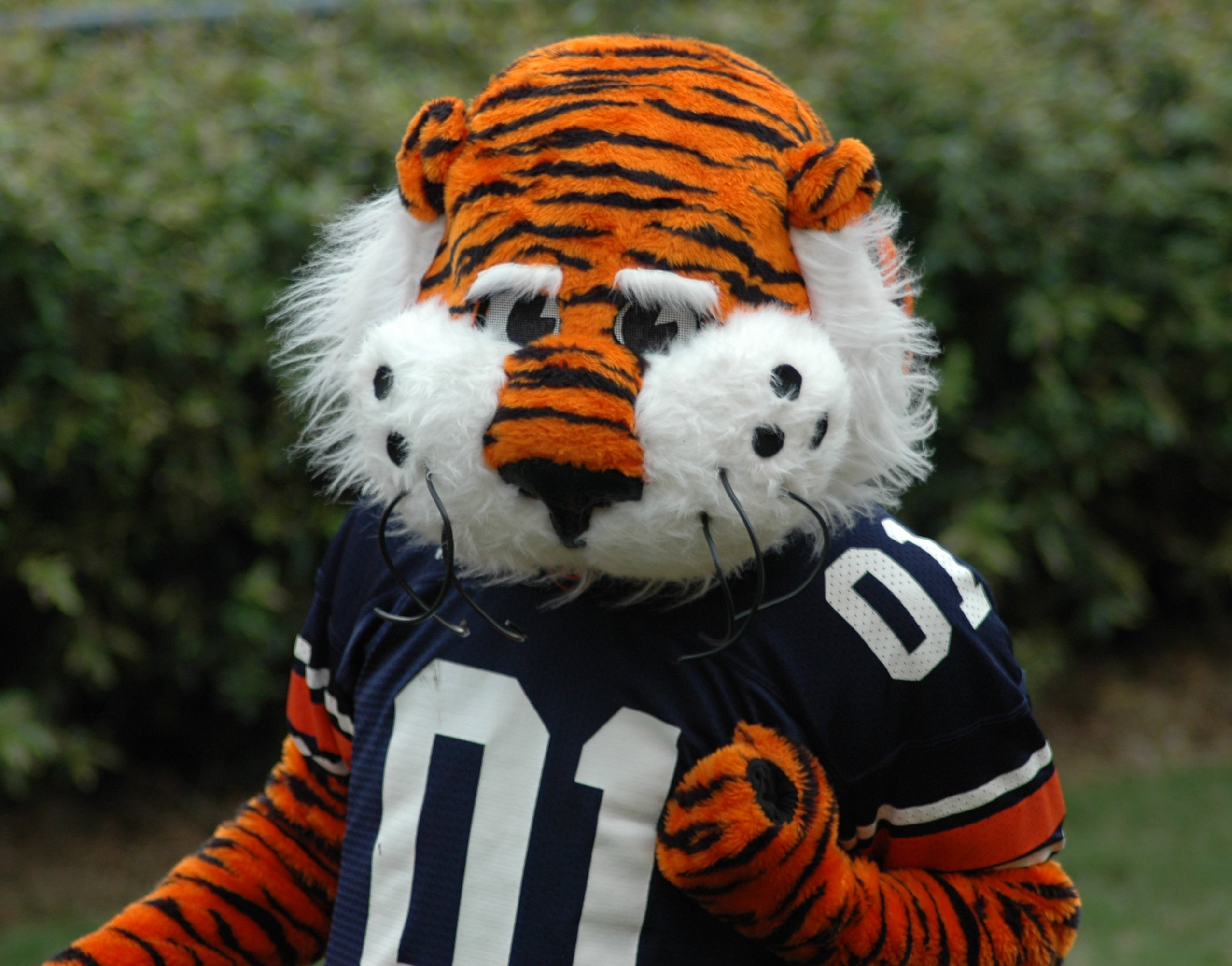 Description: Aubie, the plush, costumed mascot of Auburn University entertains the crowd at an American football game. Source: self-made Photographer: J.Glover with a Nikon D70 on October 23, 2004. Aubie, the costumed mascot of Auburn University's sports teams.